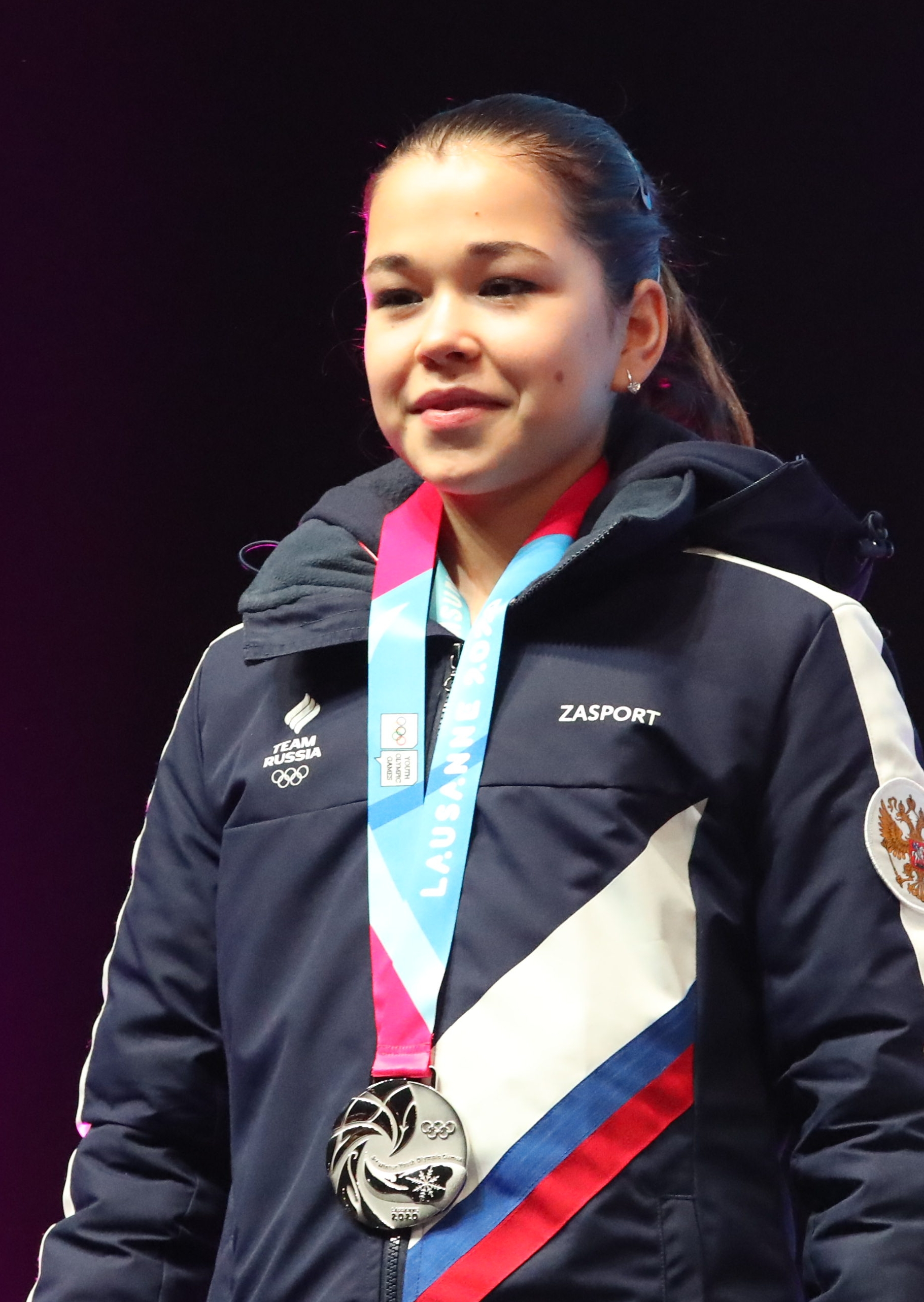 Medal Ceremony Day 3, 2020 Winter Youth Olympics in Lausanne